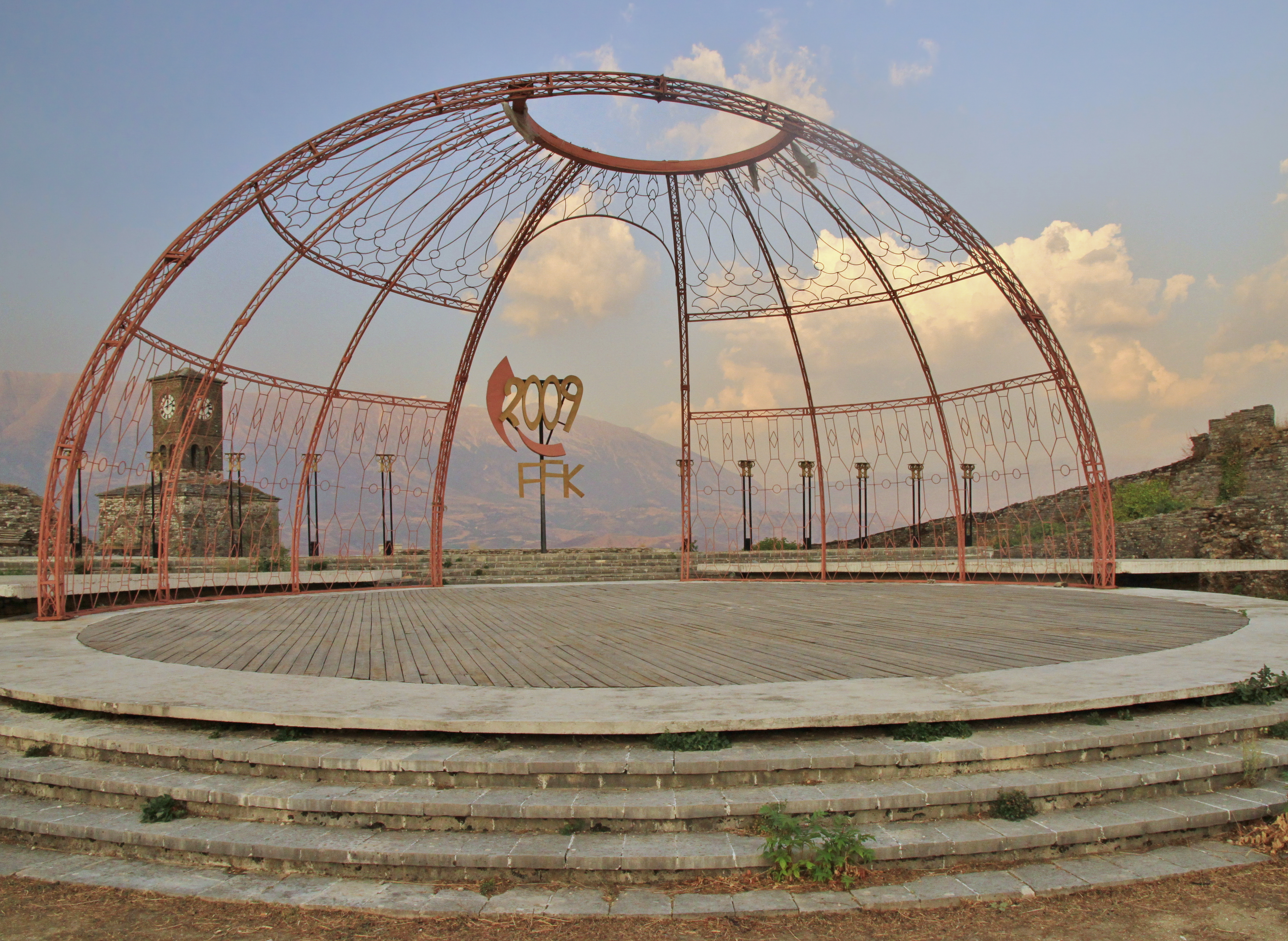 Gjirokastër Fortress, Gjirokastër, Gjirokastër County, Albania.